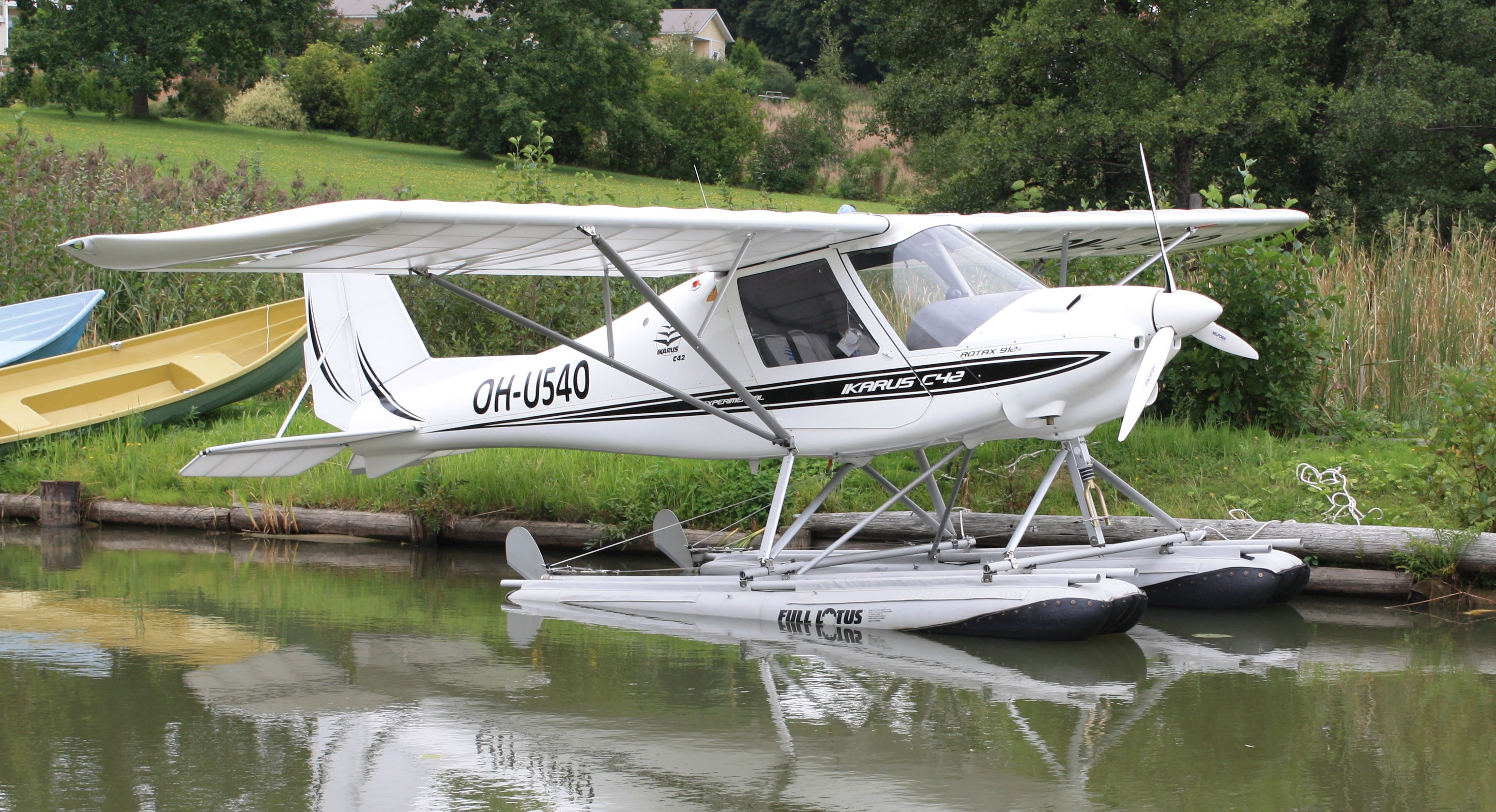 Ikarus C42 microlight airplane at Lake Tuusulanjärvi in Tuusula, Finland